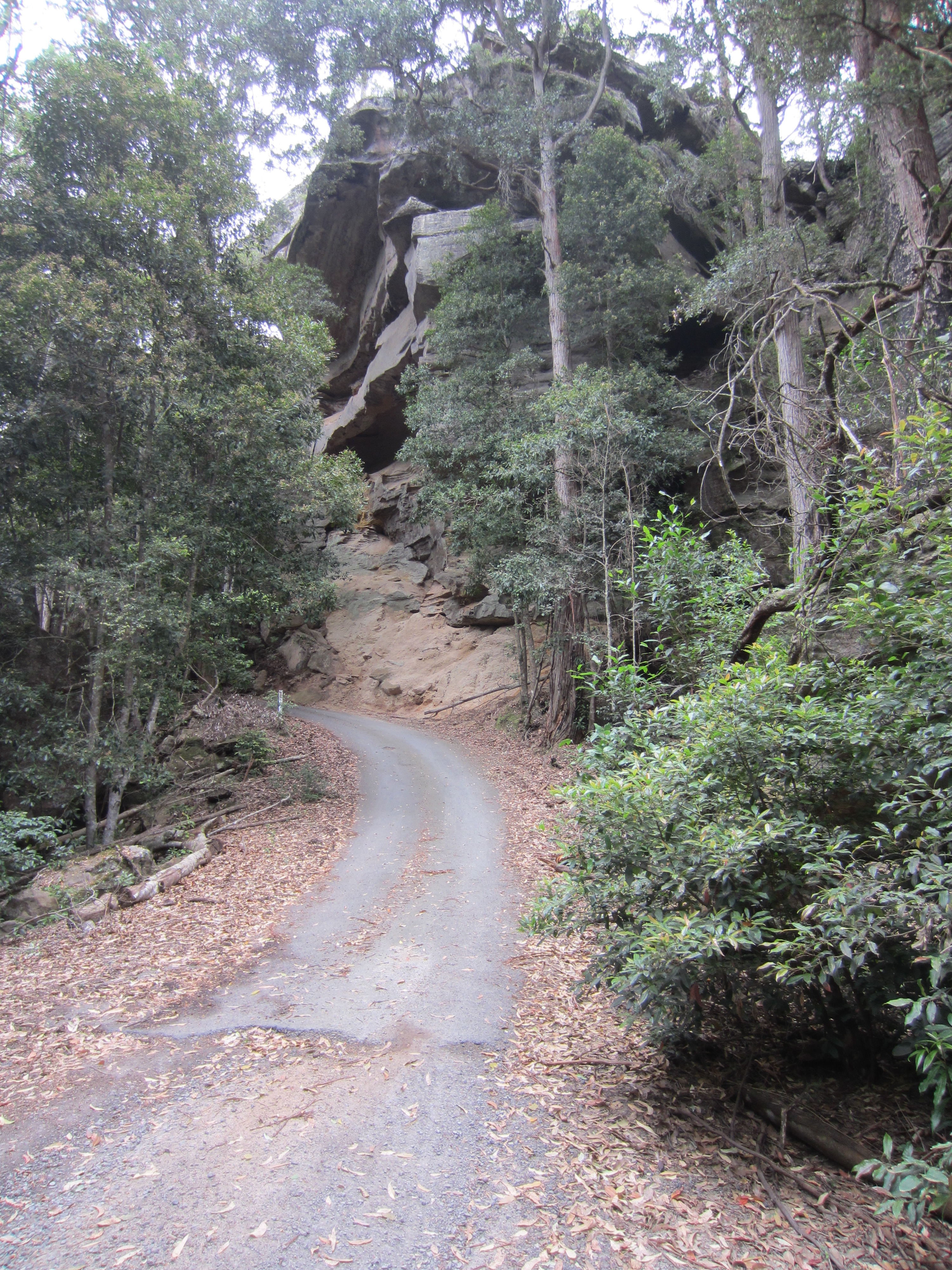 Bottom of the first of three sidleings that take the 1841 Wool Road from the plateau of the Pigeon House Range to the ridge line of tributaries of Wandandian Creek that slopes towards the coast.